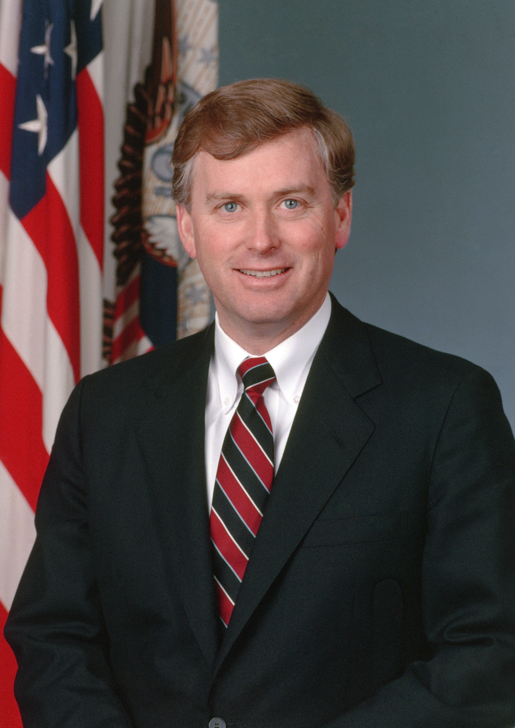 Department of Defense portrait of Vice President Dan Quayle